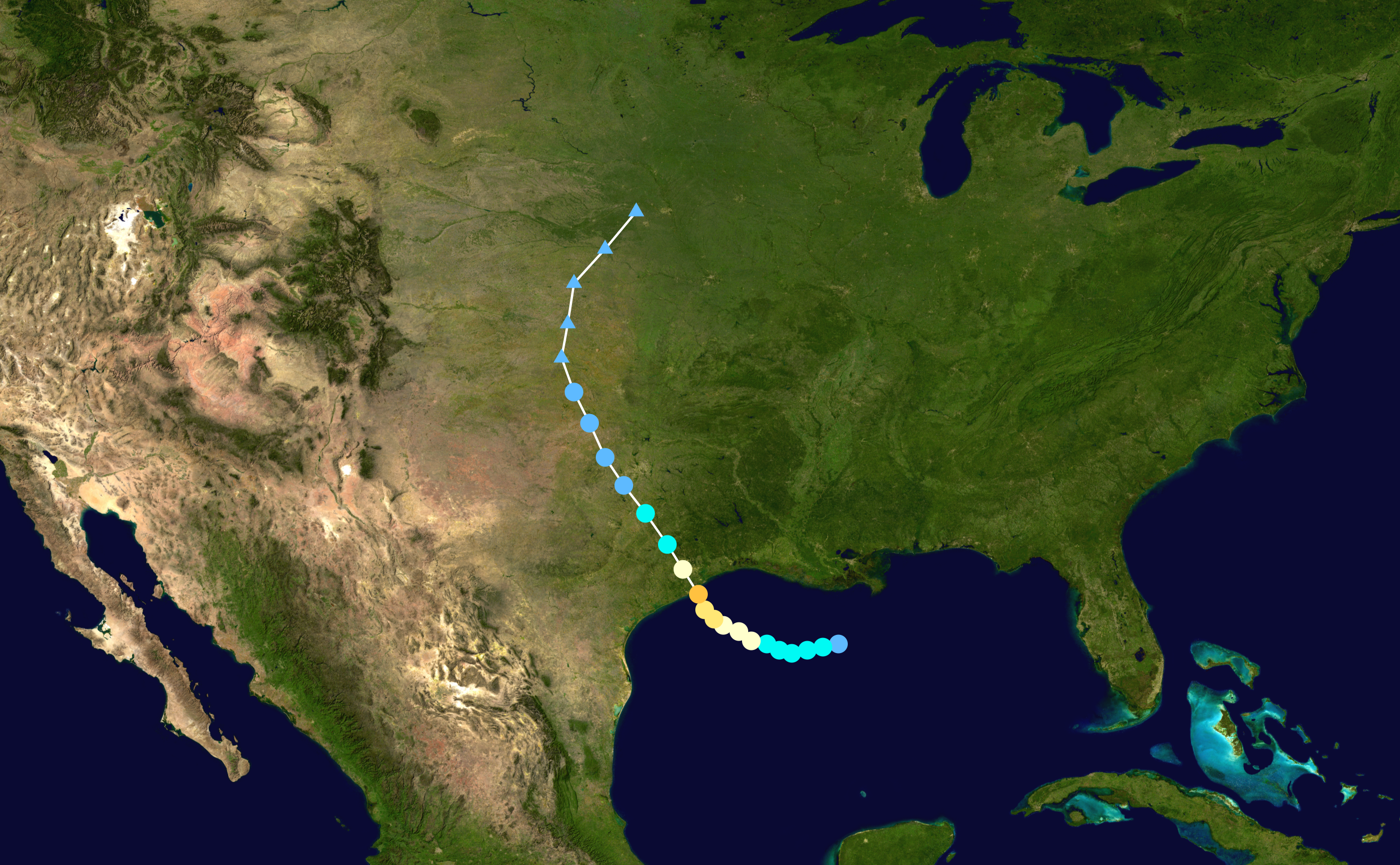 Hurricane Alicia (1983) track. Uses the color scheme from the Saffir-Simpson Hurricane Scale.